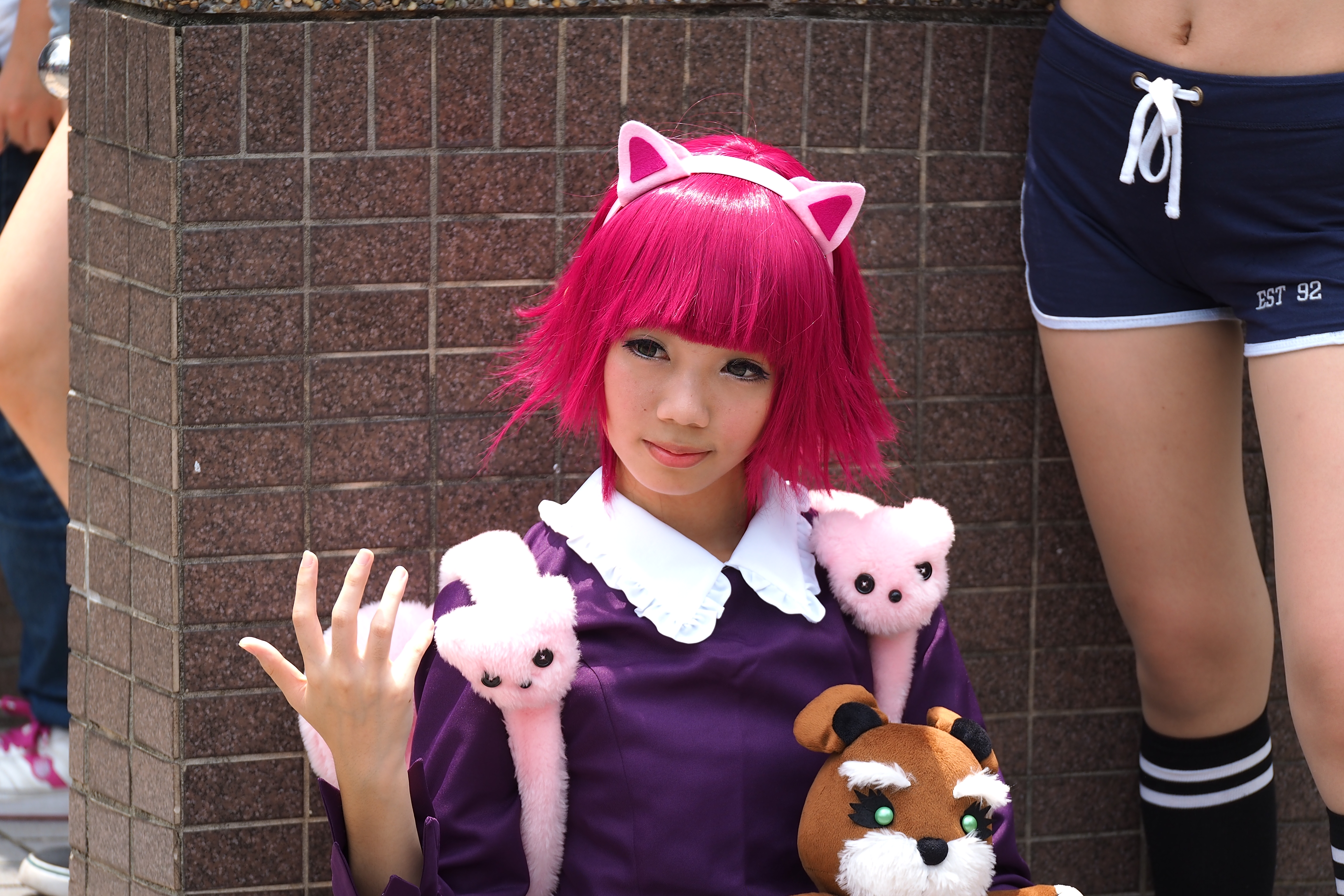 Fancy Frontier 22 Fancy Frontier 22